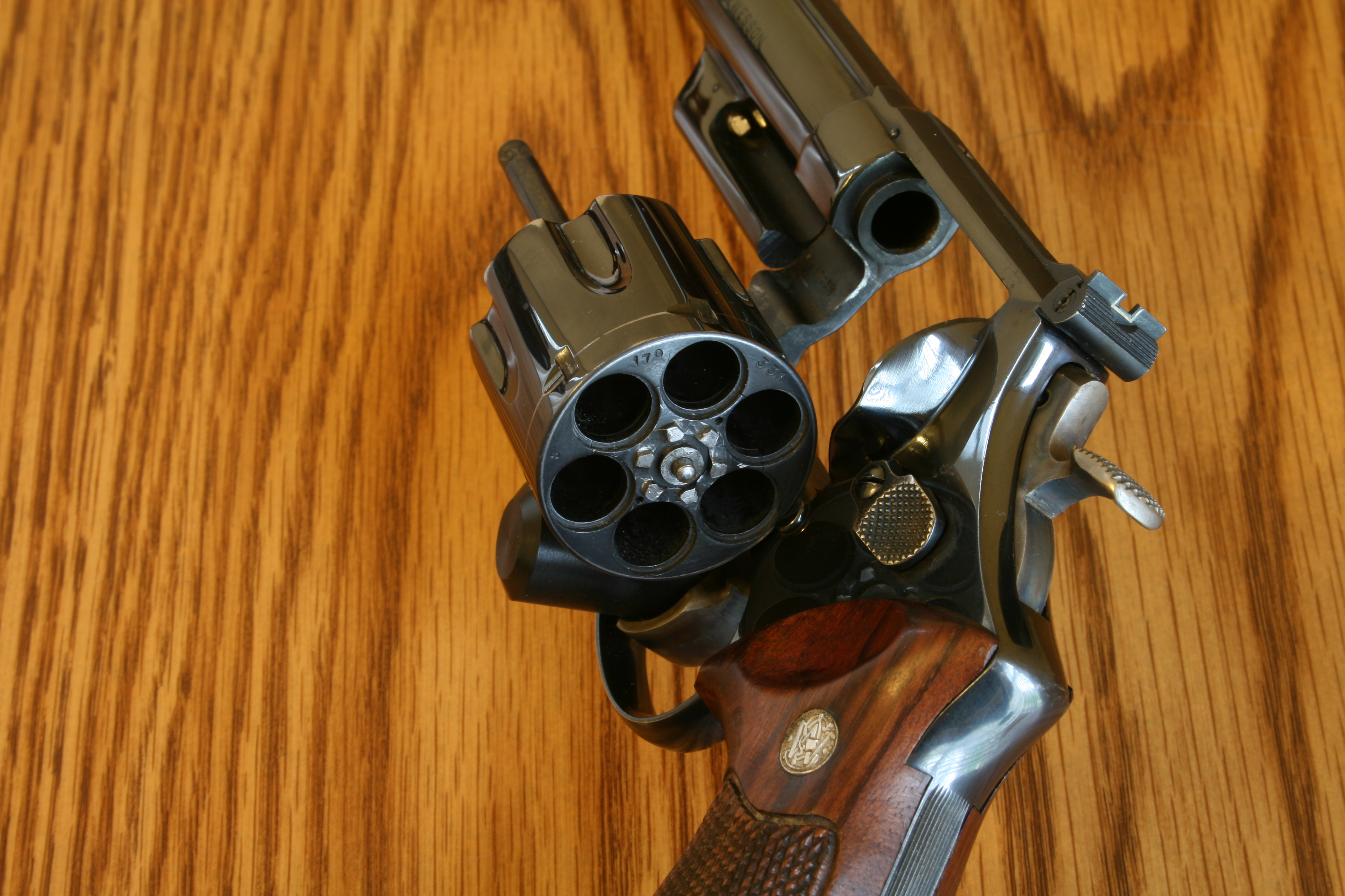 Pre 29 6.5" Barrel